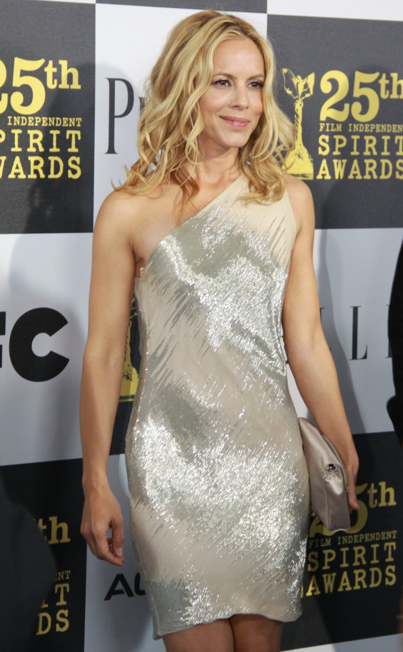 Maria Bello at the Independent Spirit Awards in Los Angeles on March 5th, 2010.